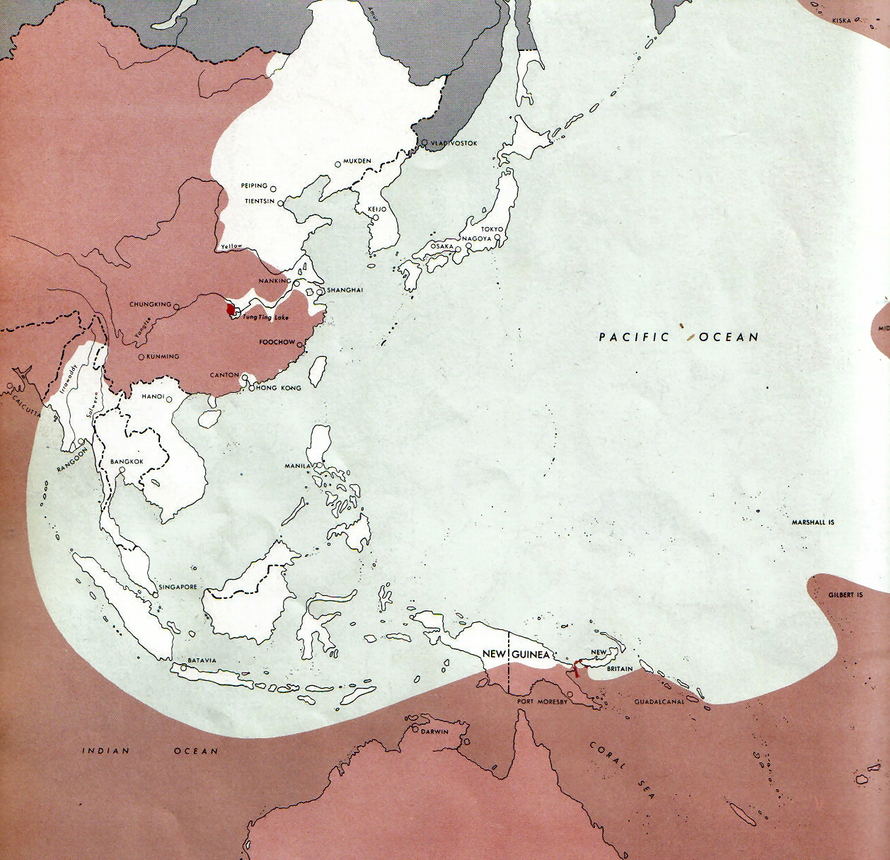 Map of the front against Japan as of 1 Jan 1944: This map is taken from the source "Atlas of the World Battle Fronts in Semimonthly Phases to August 15th 1945: Supplement to The Biennial report of The Chief of Staff of the United States Army July 1, 1943 to June 30 1945 To the Secretary of War". (See Cover, Forward and Map details)